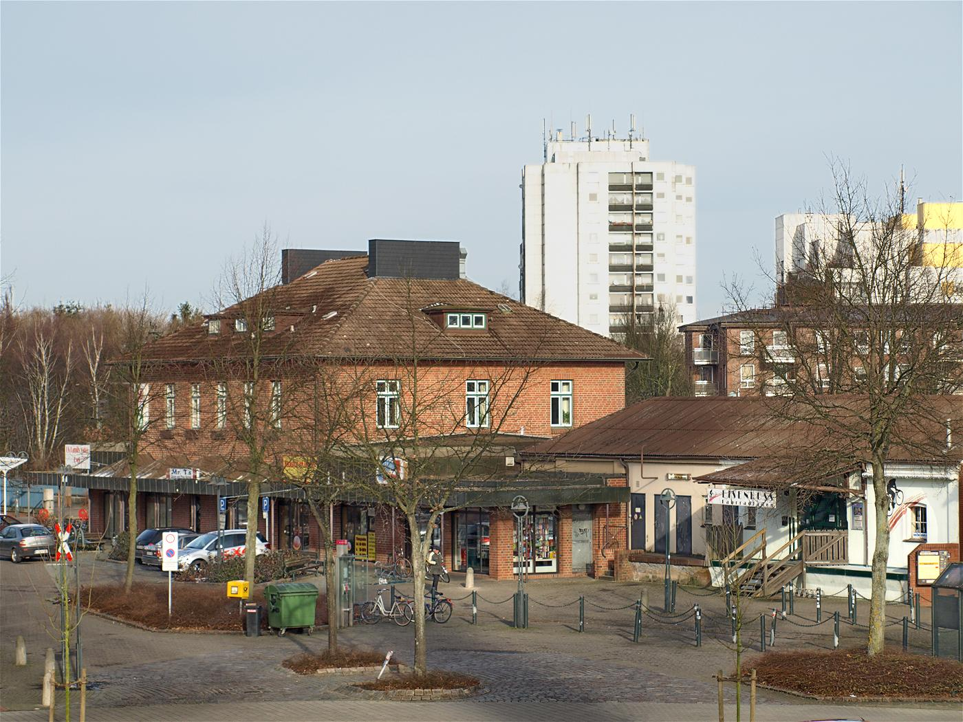 Tornesch (Schleswig Holstein (Germany)): Station building, photo 2008. - Two-storey eaves house with flat hipped roof. Year of construction: 1845 - Renovation and transformation into a commercial building: 1984. - The original building was clinkered red-yellow, 1930 it was plastered and 1984 provided with a brick-facing shell.- Front right the former freight station building, which still has the original brickwork of 1845 on the track side. Object location53° 41′ 49.81″ N, 9° 42′ 52.44″ E